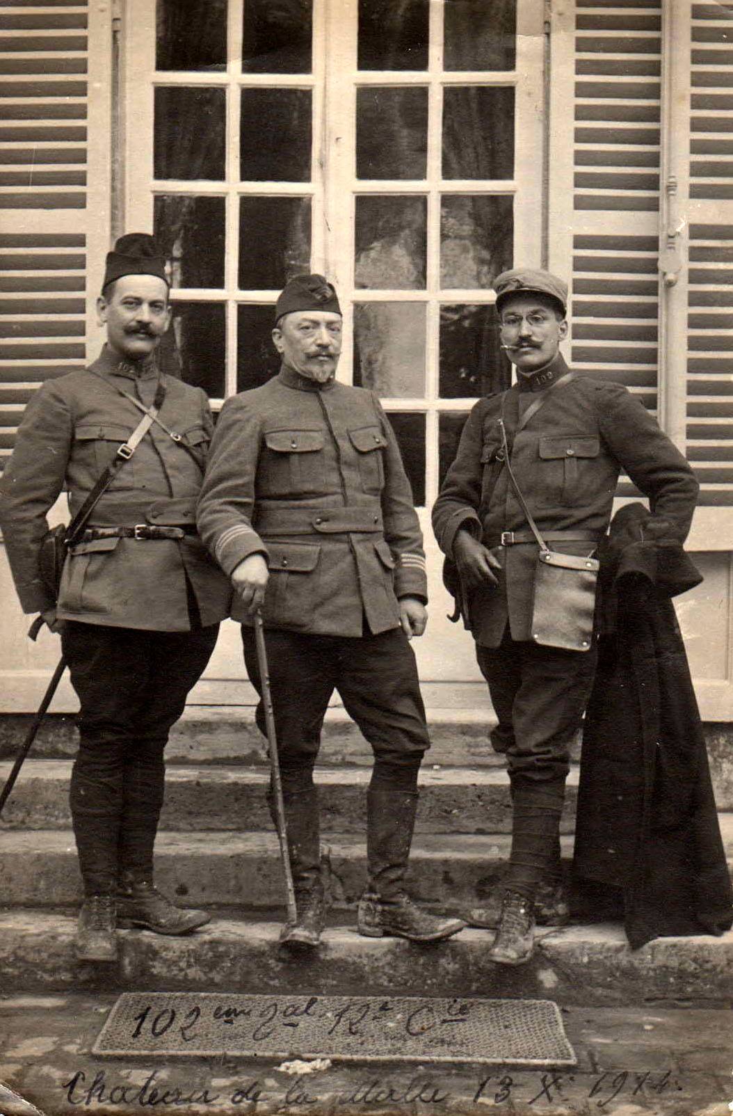 102nd Infantry Regiment Territorial (RIT), 12nd Co., captain and two lieutenants, France, December 13, 1914